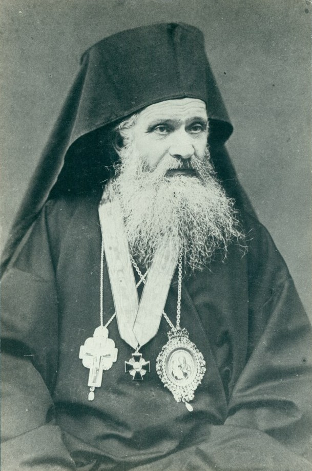 Seraphim_of_Sliven